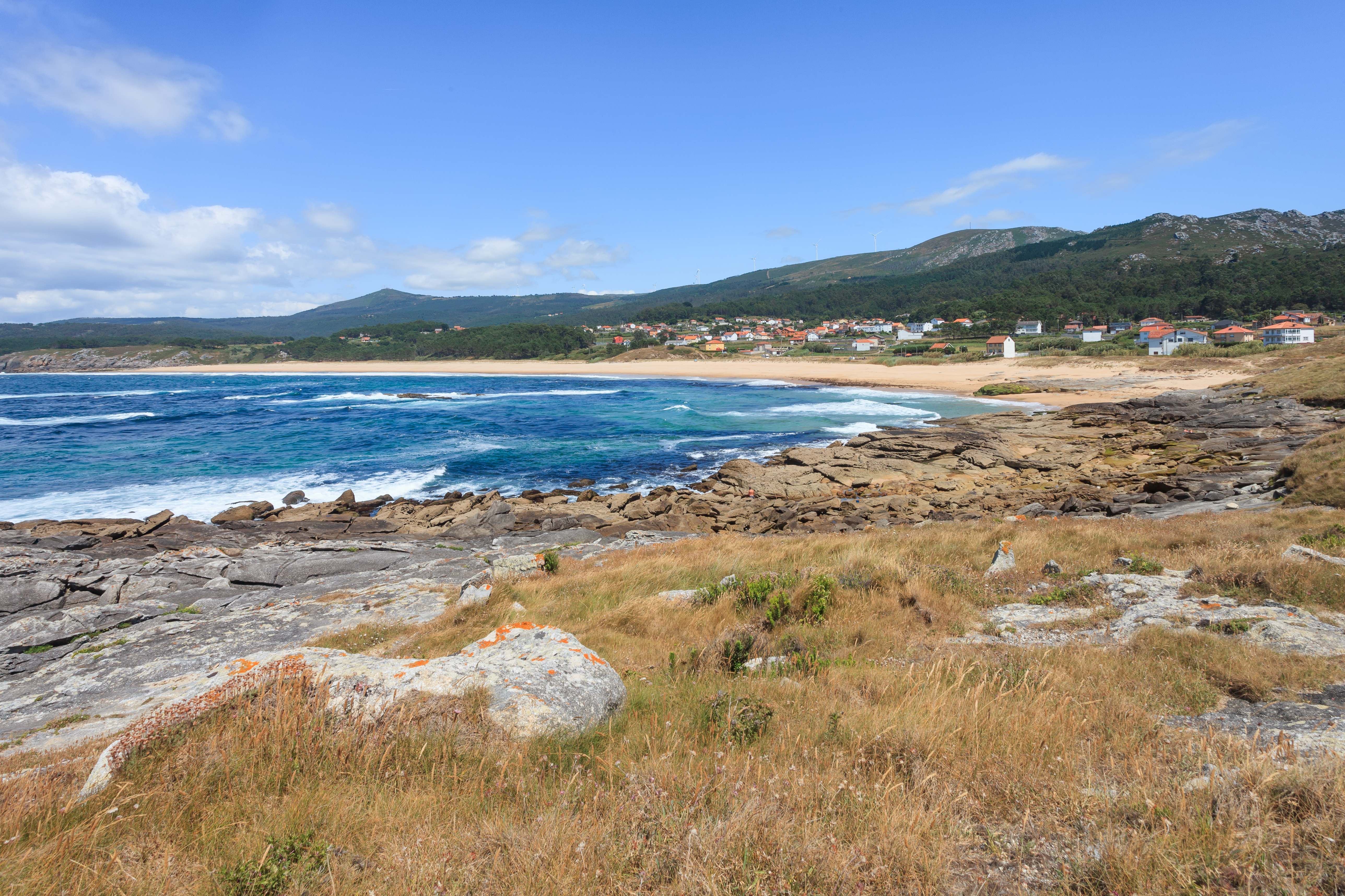 Beach and village of Queiruga, Porto do Son, Galicia (Spain).